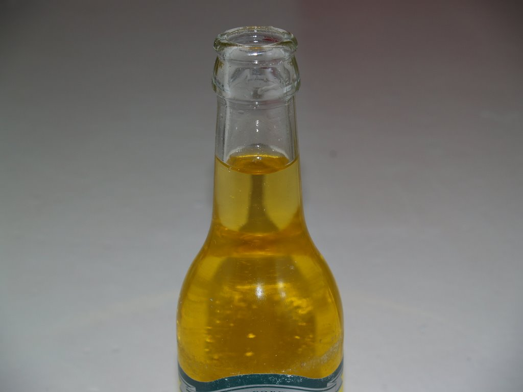 lemon soft drink